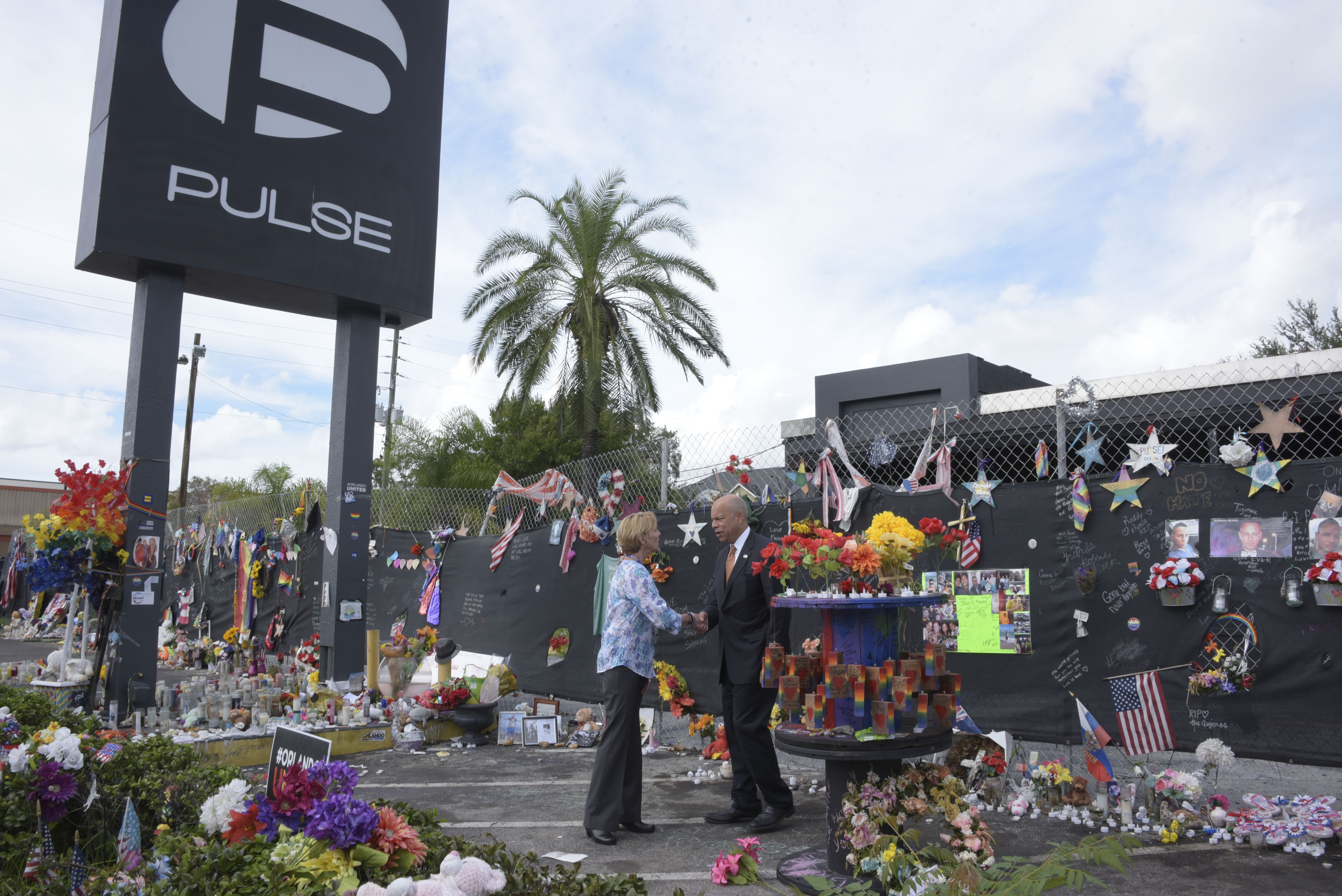 ORLANDO - Secretary of Homeland Security Jeh Johnson visits Pulse Nightclub on the three-month anniversary of the shooting which left 49 people dead in Orlando, Sept. 12, 2016. Secretary Johnson viewed the inside of the nightclub before laying flowers at a makeshift memorial outside of the club where he spoke to a chaplain there who had assisted those impacted by the shooting. Official DHS photo by Jetta Disco.